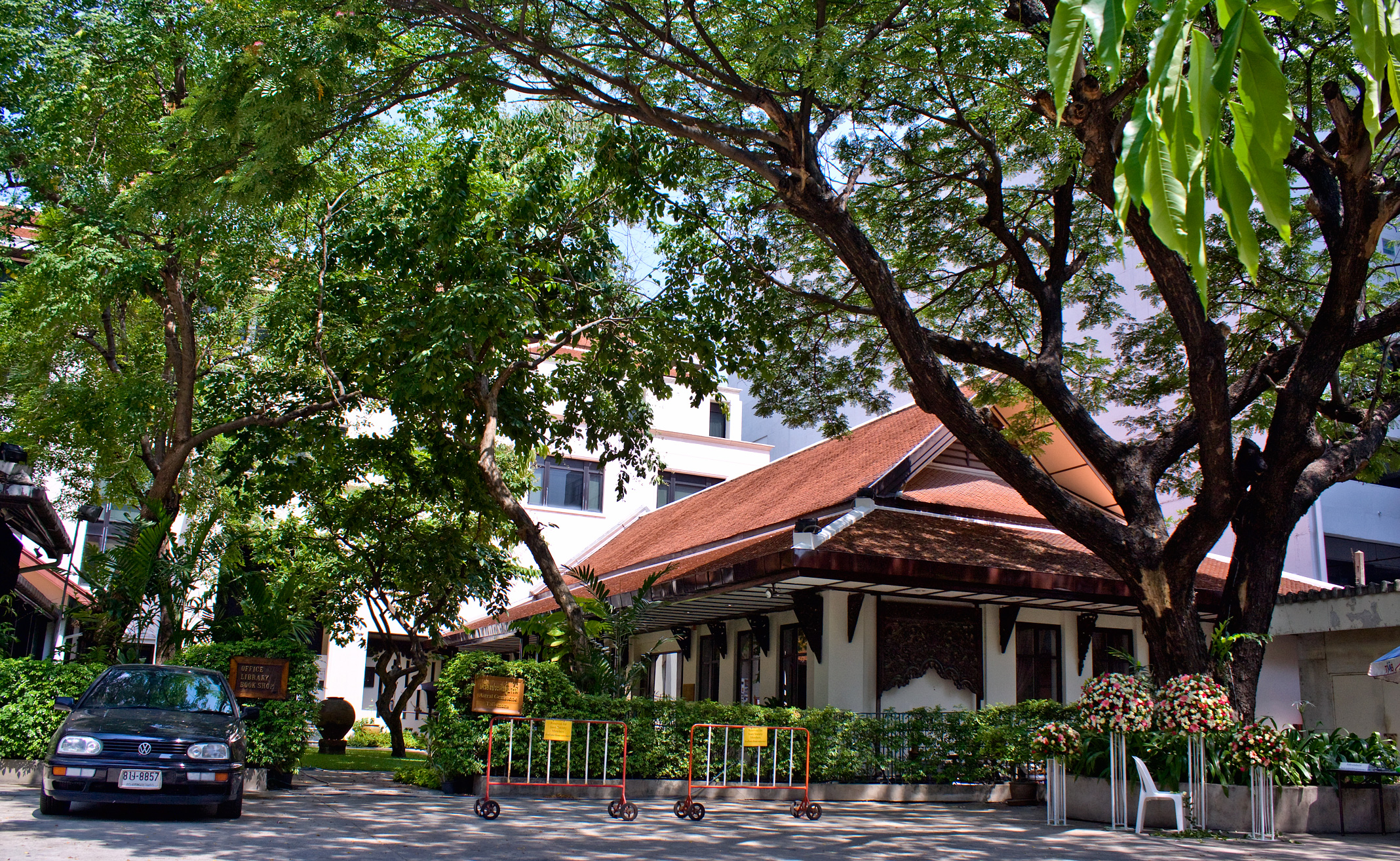 The Siam Society